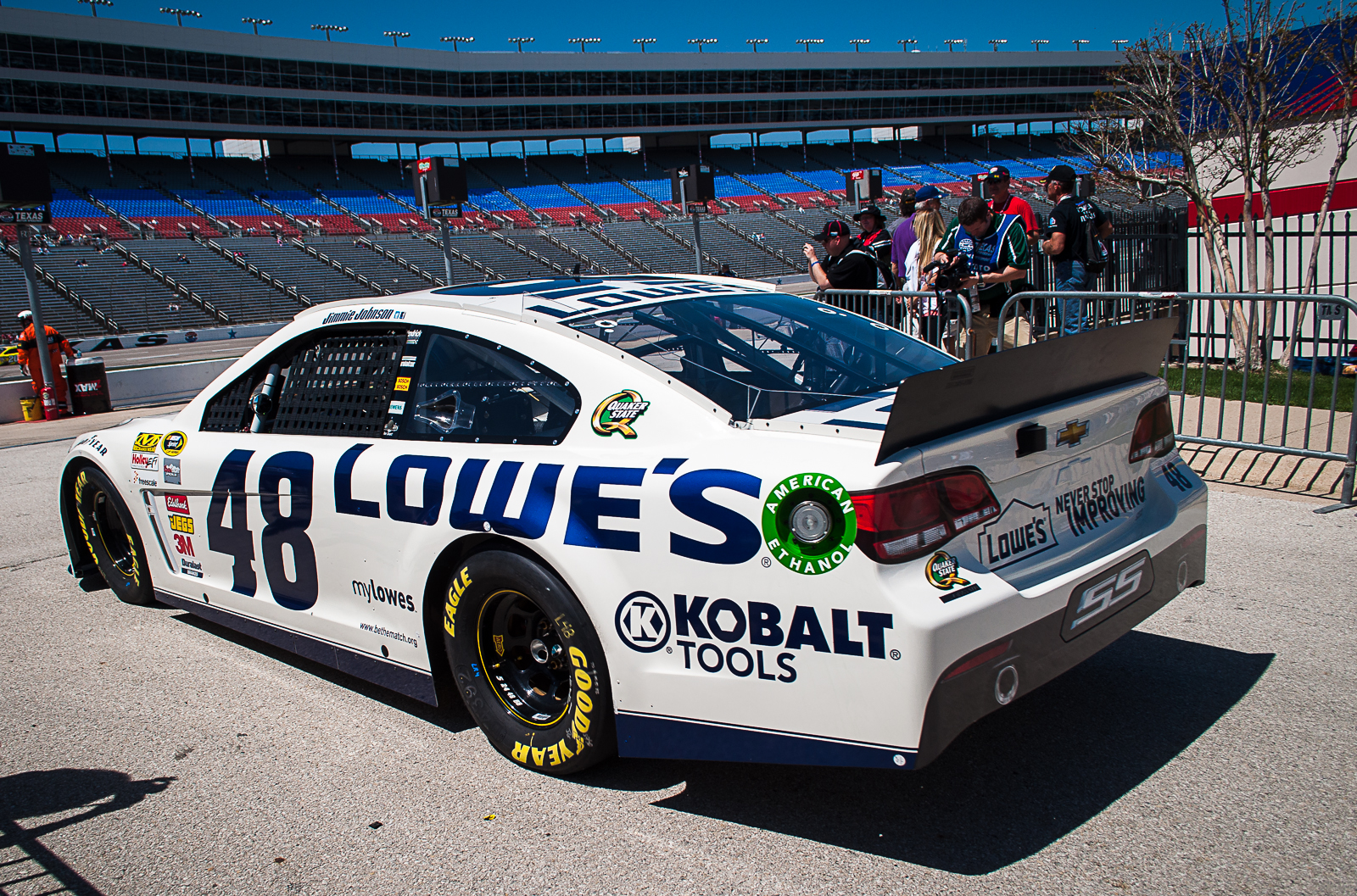 Jimmie Johnson drives the No. 48 Lowe's Chevrolet (alternate Dover White paint scheme) onto the track for practice at Texas Motor Speedway.